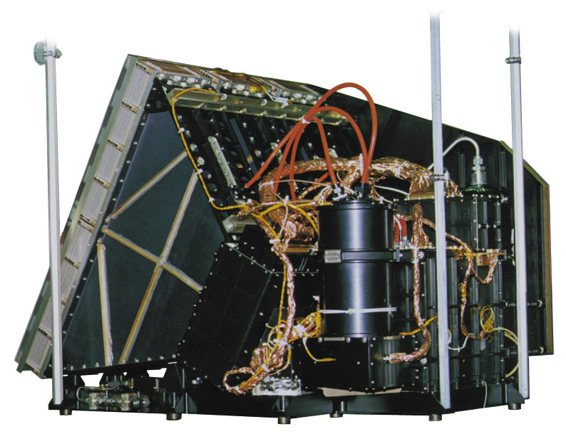 Instrument of the scientific satellite Advanced Composition Explorer.The Solar Energetic Particle Ionic Charge Analyzer (SEPICA) determines the ionic charge state, elemental composition, and energy spectra of energetic solar ions. This is vital information in studying the material accelerated in solar events. It also allows us to learn more about element and isotope selection processes and particle acceleration on the Sun. During solar quiet times, SEPICA directly measures the charge of ACR ions (described later), including nitrogen, oxygen, and neon. It covers a range from 0.5 MeV/charge to about 5 MeV/charge for charge state composition, and up to 10 MeV/nucleon for element analysis (a nucleon is a particle from the nucleus, either a proton or a neutron).